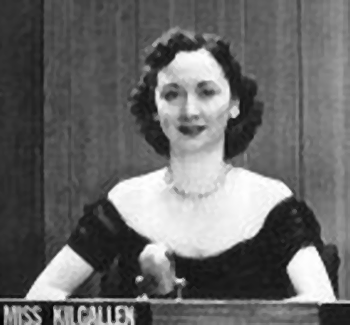 Photo of the original What's My Line? television set and panel of the show. From left: Dorothy Kilgallen, Bennett Cerf, Arlene Francis, Hal Block and host John Daly.